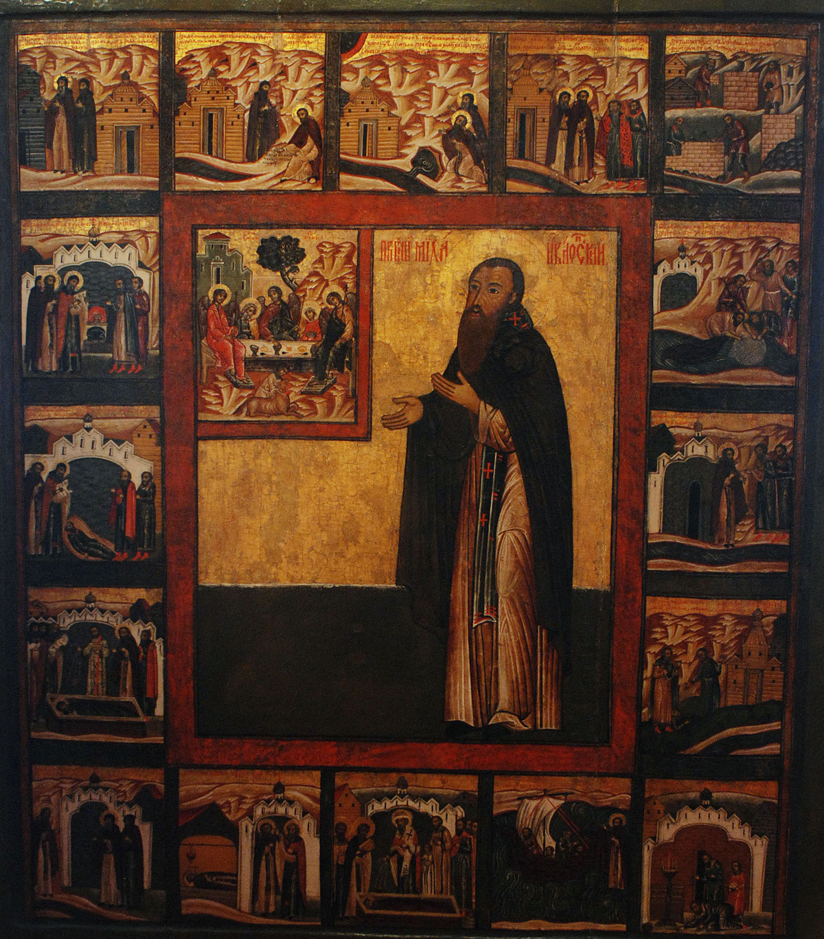 Venerable Michael of Klops Monastery in Life, Icon, Russian North, 17th century. The State Historical Museum.